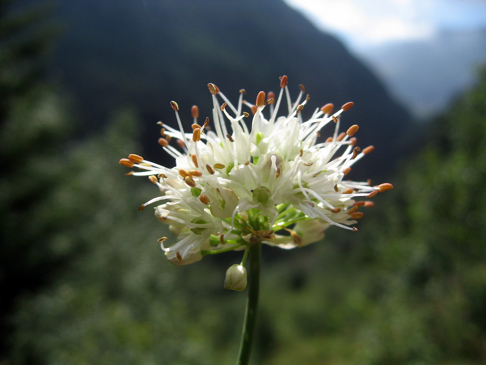 Allium ericetorum